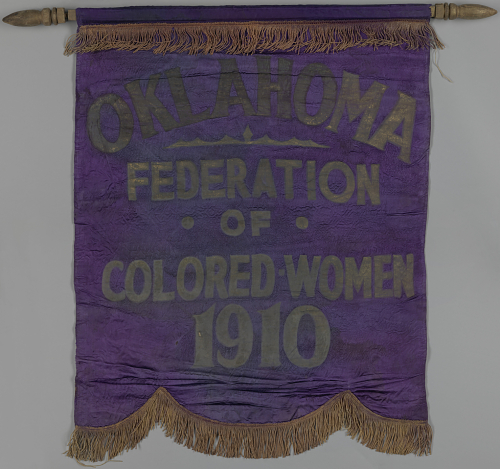 A purple silk banner with gold fringe created for the Oklahoma Federation of Colored Women's Clubs. The message "OKLAHOMA / FEDERATION / OF / COLORED WOMEN / 1910" is painted across the banner in large gold letters. The bottom of the banner is scalloped and has an attached length of fringe. The top of the banner has a sewn loop running its length for a rod (2010.2.2b) to be inserted. There is a strip of gold fringe sewn just below this loop. The rod is currently stored in place in the banner. It is painted gold at the ends and has two carved wooden finial painted gold. 2010.2.2c is attached to the rod and 2010.2.2d is detached.